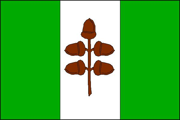 Municipal flag of Dubňany town, Hodonín District, Czech Republic.